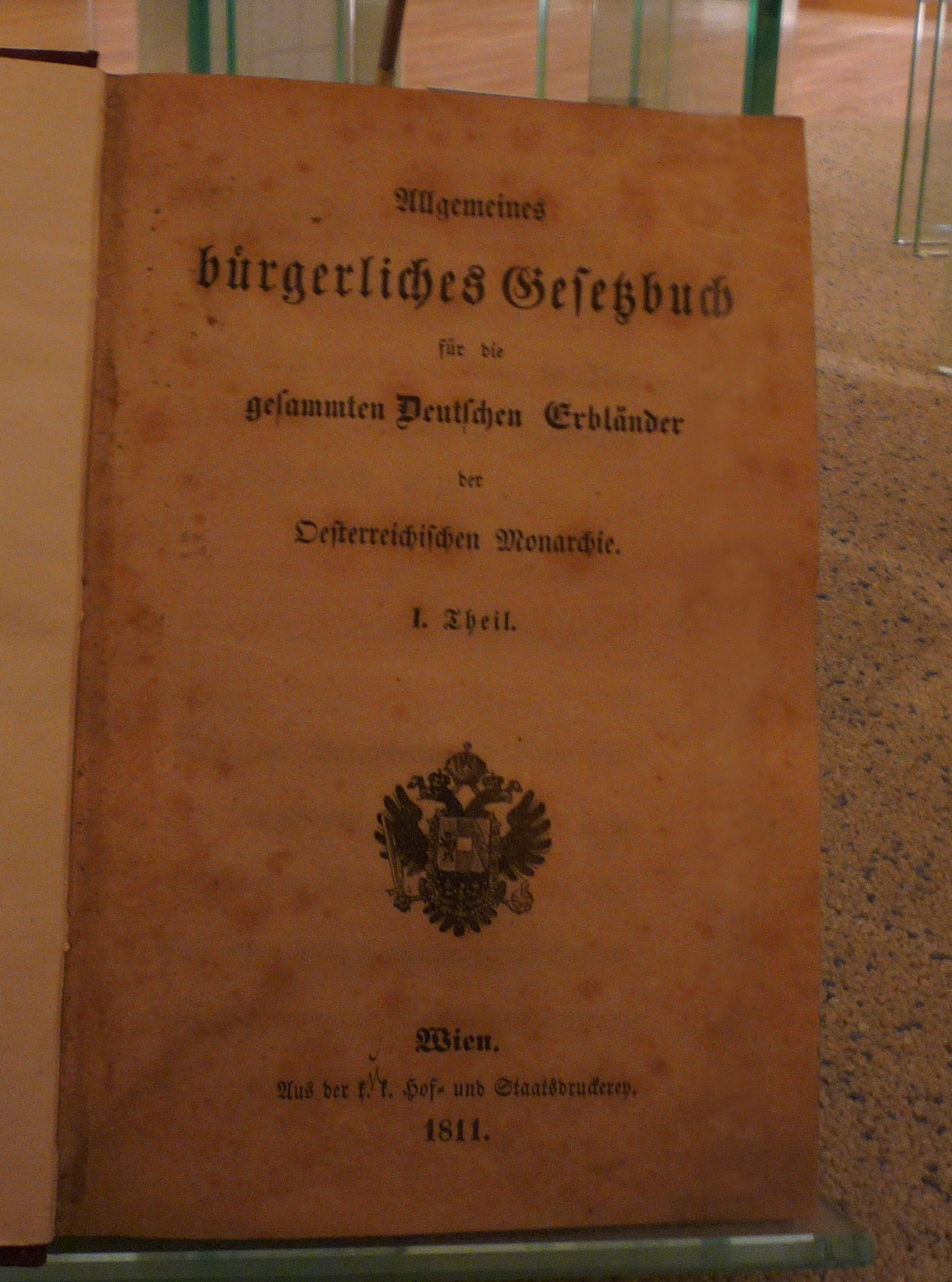 Title of austrian Allgemeinen Bürgerlichen Gesetzbuch from 1811, shown in Heeresgeschichtlichen Museum. On the right side a reflection was erased Heeresgeschichtliches Museum Native nameHeeresgeschichtliches MuseumParent institutionMinistry of DefenceLocationViennaCoordinates48° 11′ 07.3″ N, 16° 23′ 14.6″ E Established1856Web page control : Q700751 VIAF: 149726120 ISNI: 0000 0001 2182 8171 LCCN: n50055593 OSM: 4465113 GND: 2006452-4 WorldCat institution QS:P195,Q700751